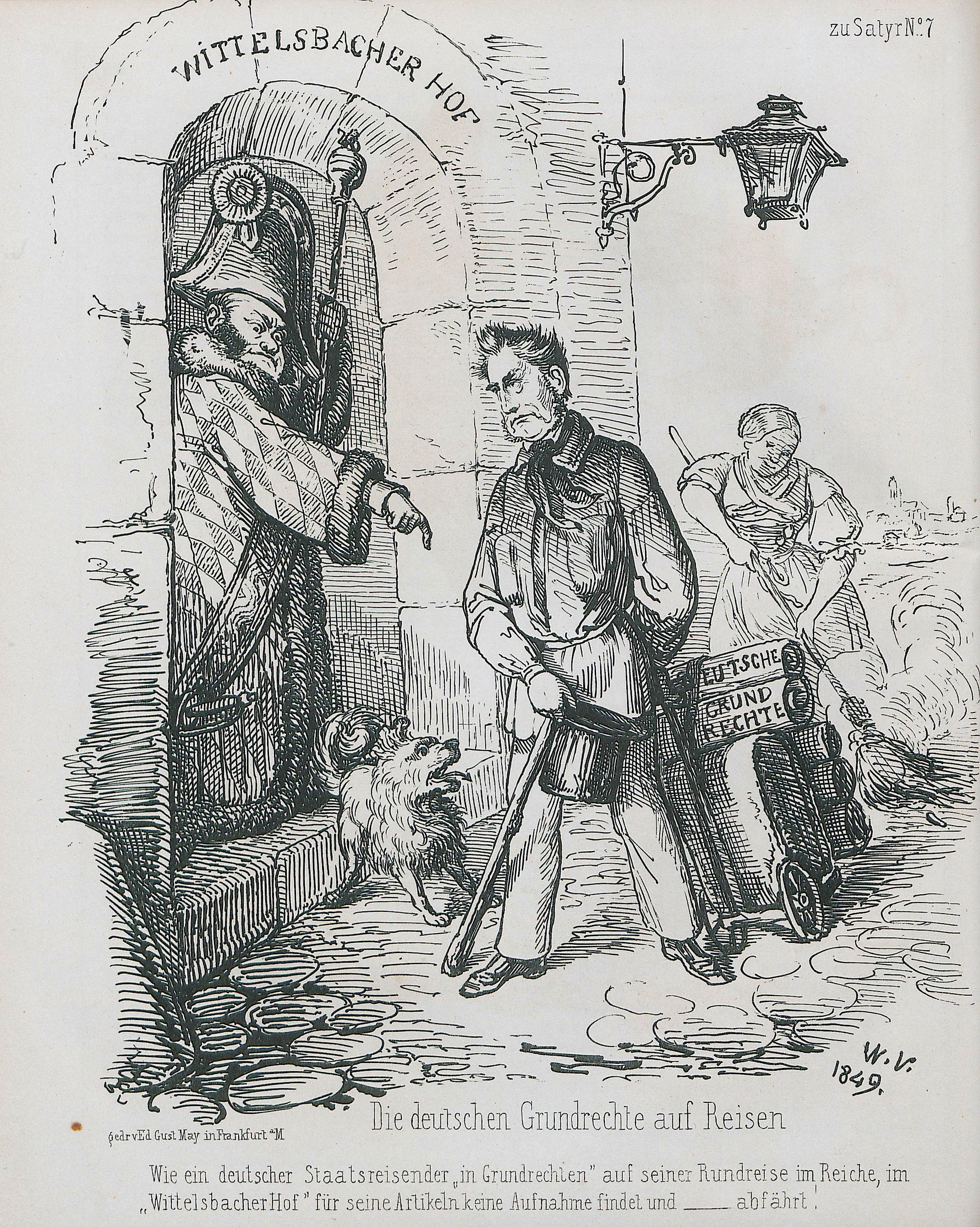 Karikatur